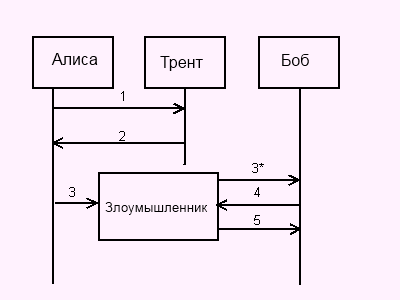 Attacks on the Needham–Schroeder Symmetric Key Protocol